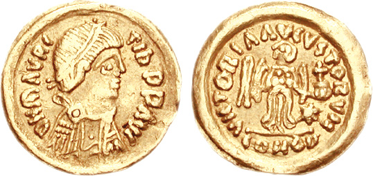 Mauricius Tiberius. 582-602. AV Tremissis (1.43 g, 6h). Ravenna mint. Struck AD 583-602. Pearl-diademed, draped, and cuirassed bust right Victory standing facing, head left, holding wreath and globus cruciger; star in right field; CONOB. DOC I 287; SB 592. VF. From the Marc Poncin Collection. Ex Numismatica Ars Classica O (13 May 2004), lot 2141.